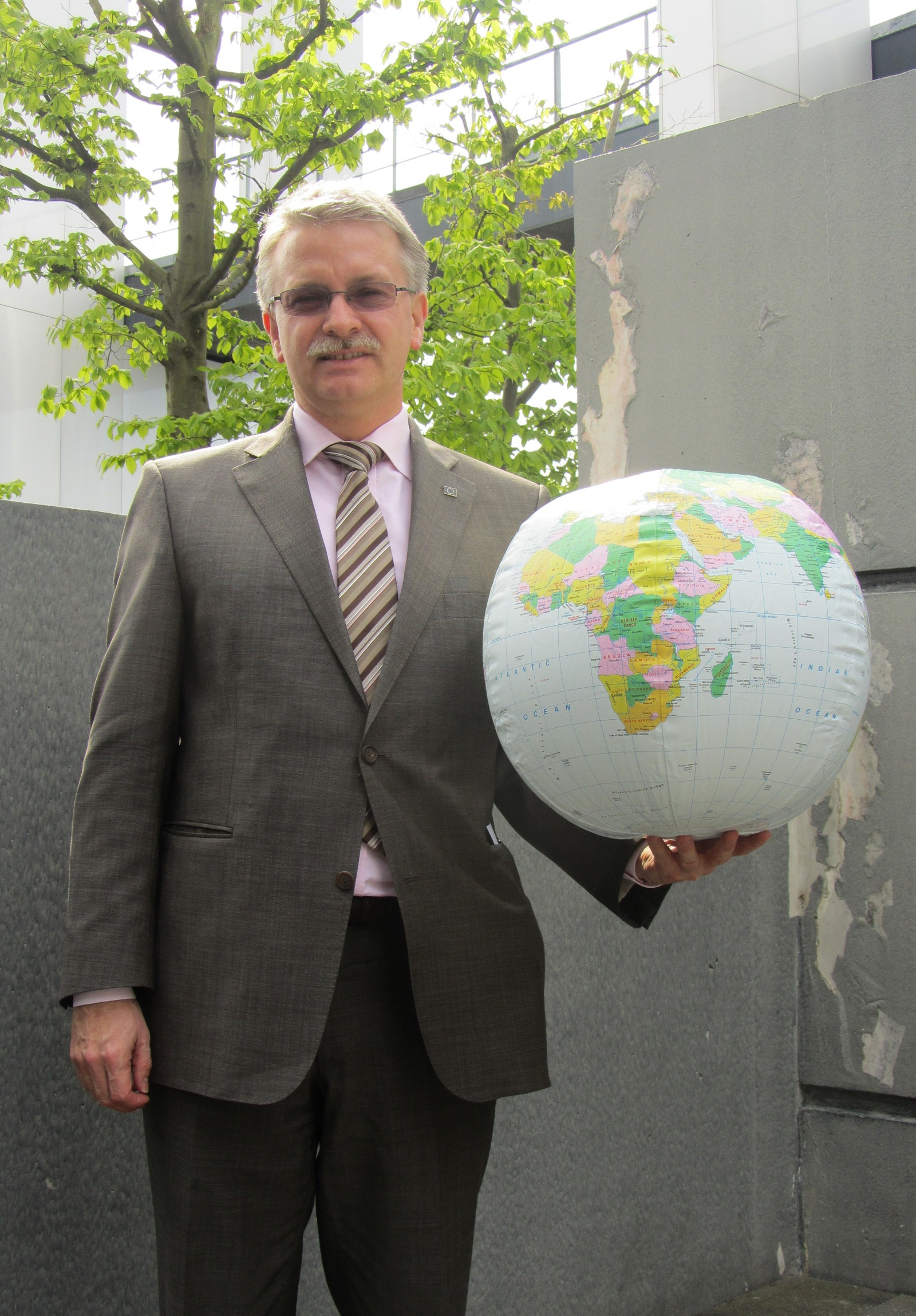 MEP Michael GAHLER, EPP, Germany